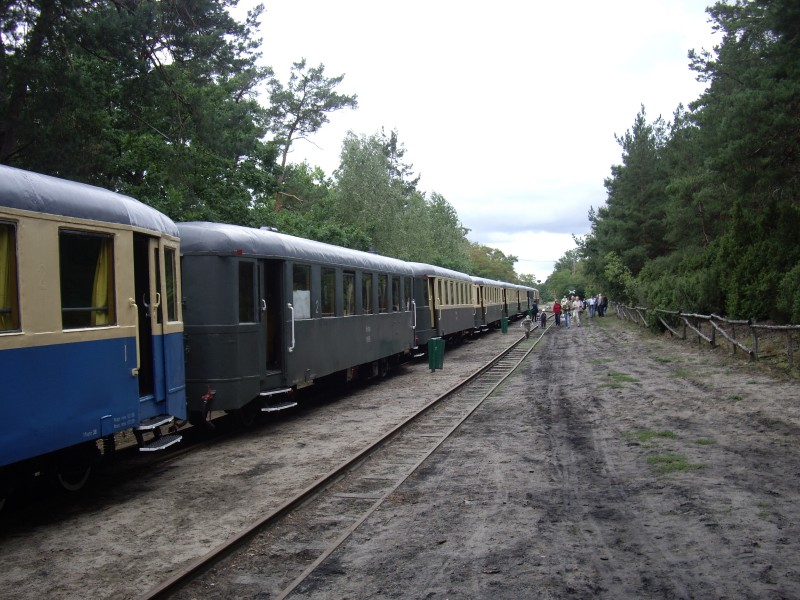 Type 1Aw coaches (Bxhpi series) from Narrow Gauge Railway Museum in Sochaczew, Poland